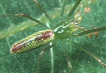 male Tetragnatha squamata from Okinawa.